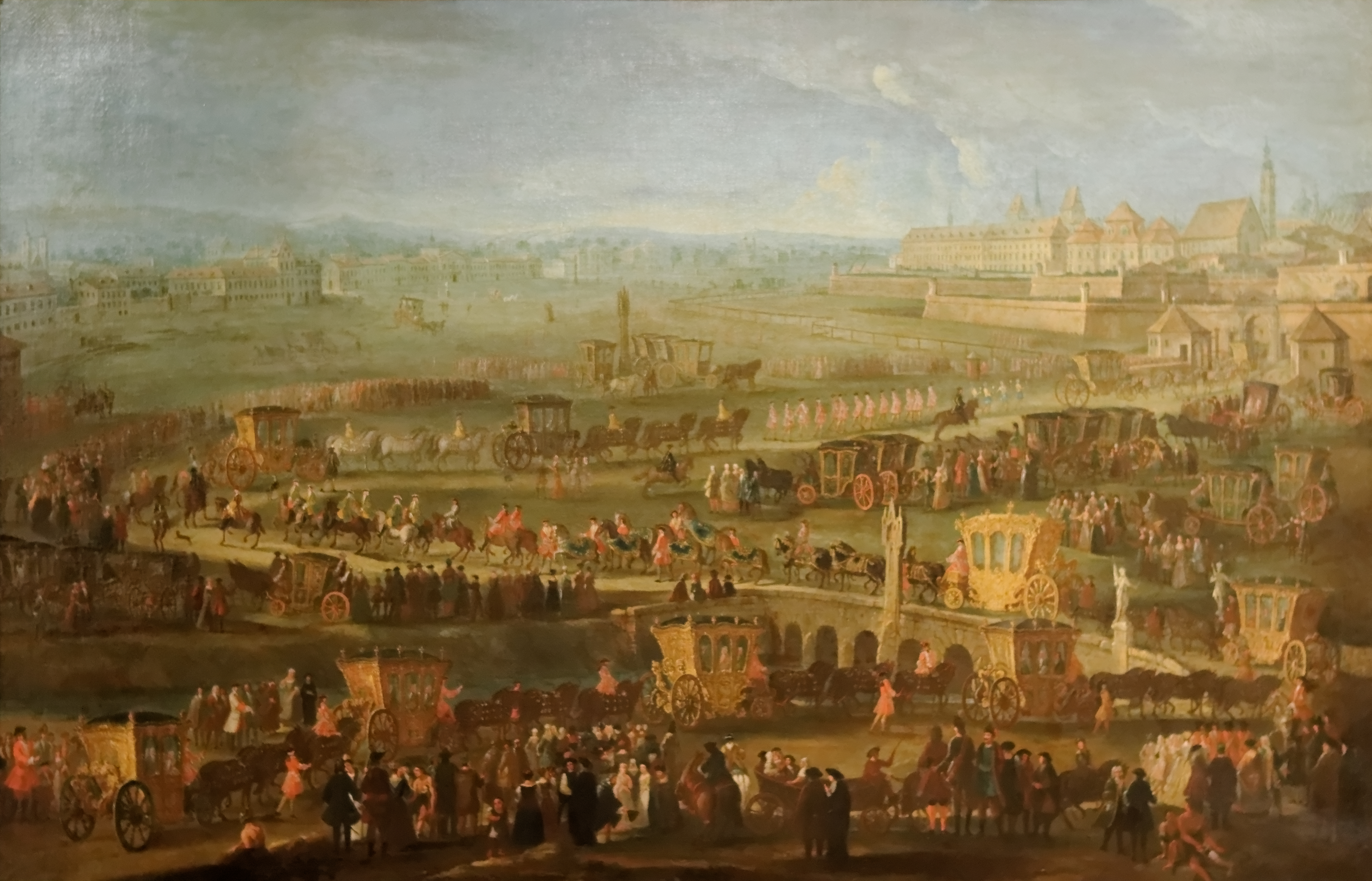 Marquis de Mirepoix into Vienna on 12 October 1738. Oil on canevas. Unknown artist, ca 1740. Gift of prince Johann II of Liechtenstein 1904. Vienne Museum Karlplatz. Vienna (Austria).